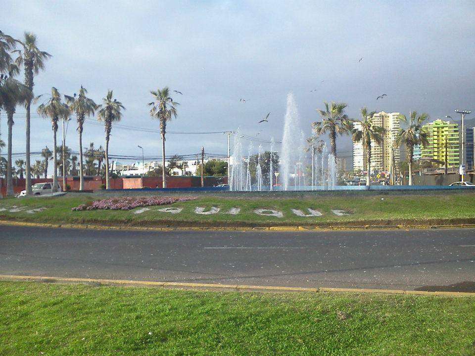 chile